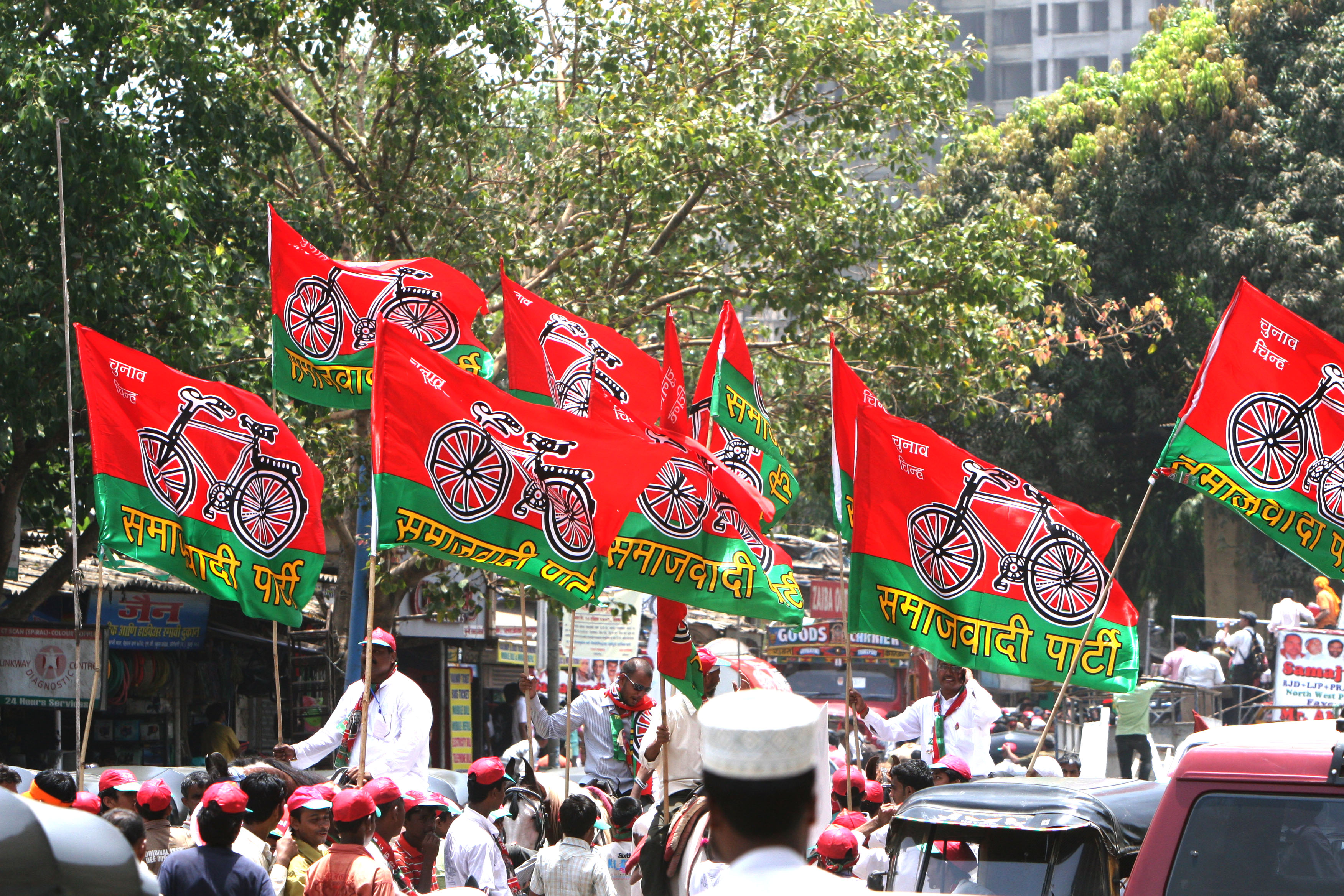 Party activists march in Mumbai's streets